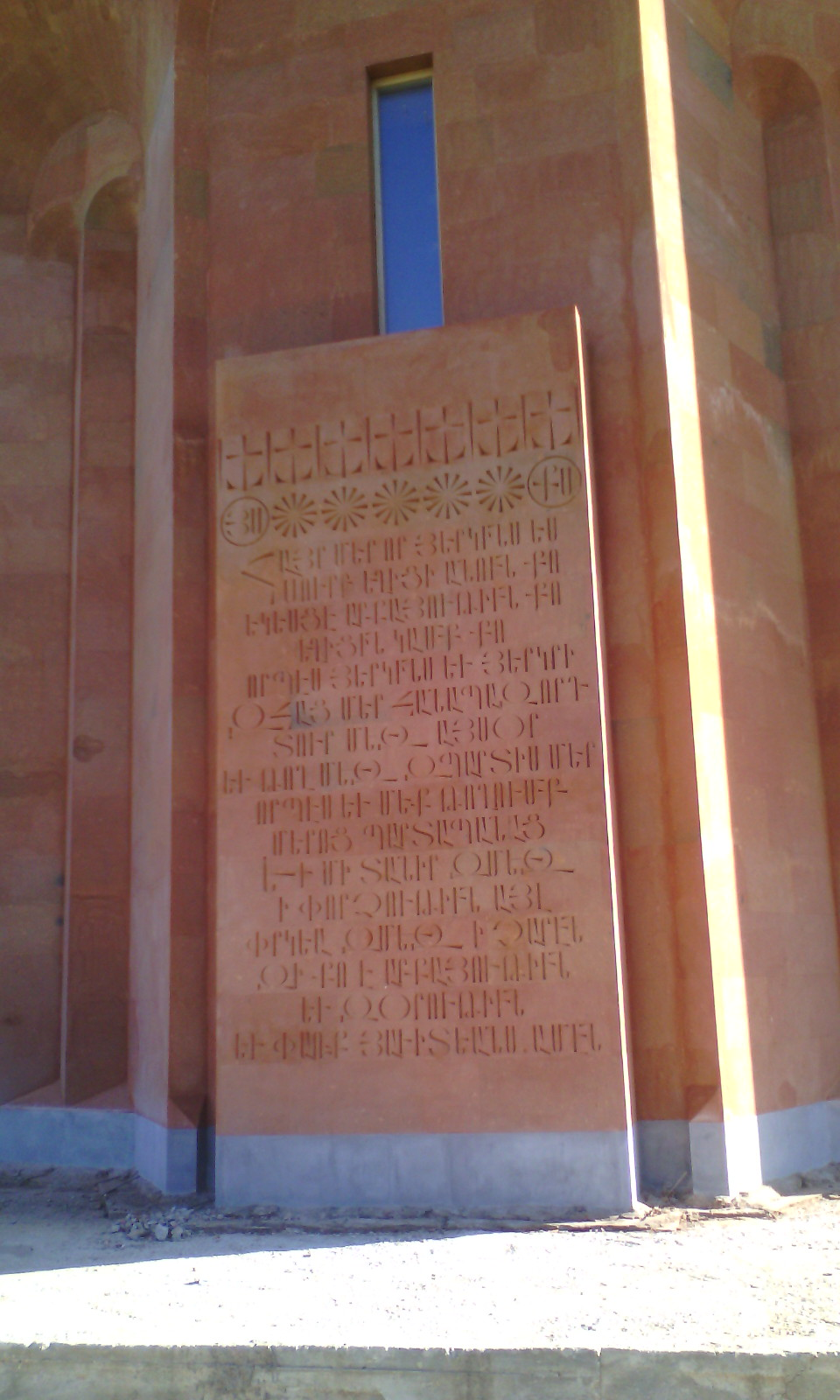 a memorial table